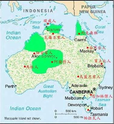 Aboriginal Australians Distribution